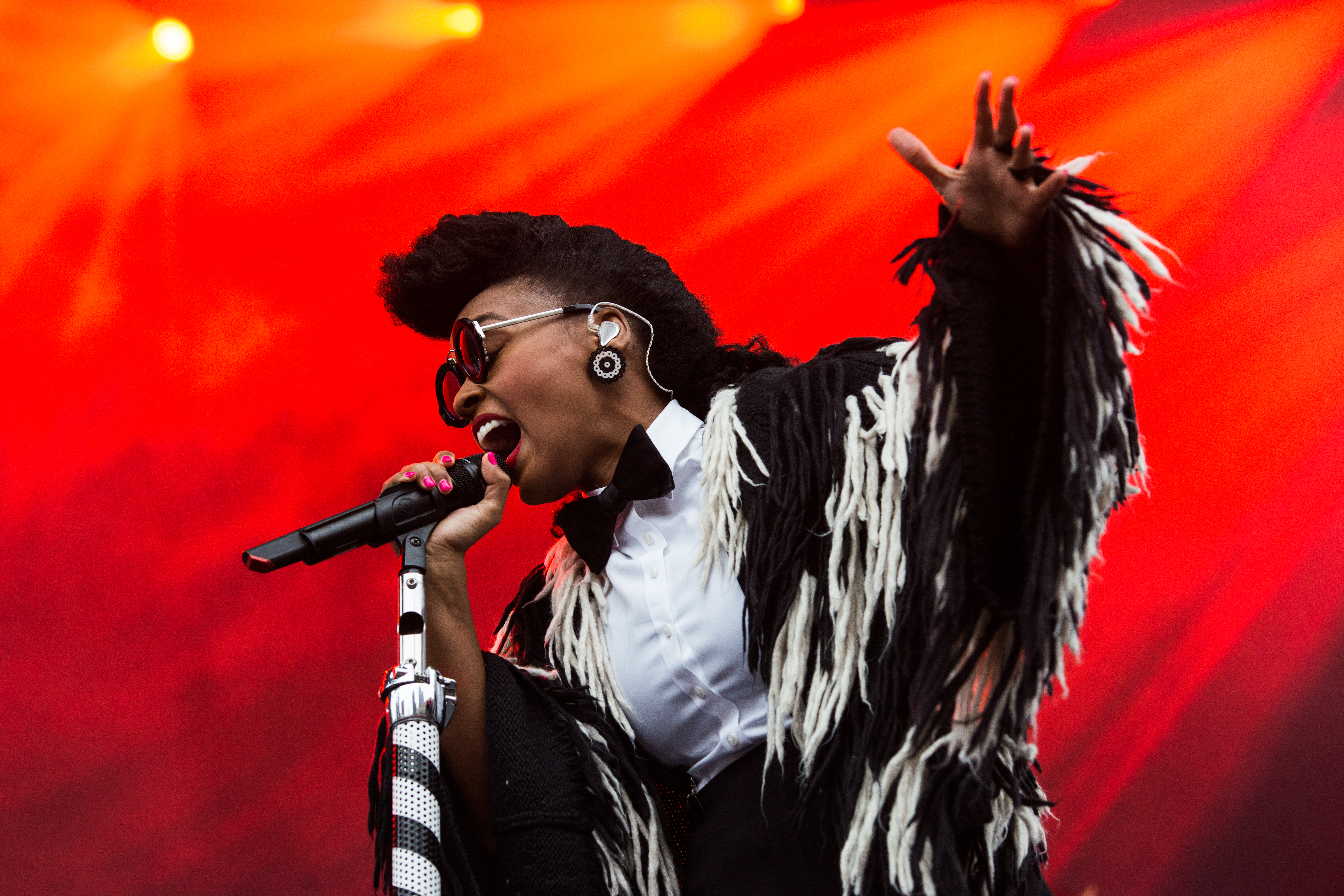 Janelle Monáe performing at the Boston Calling Music Festival on May 29, 2016 in Boston, Massachusetts.